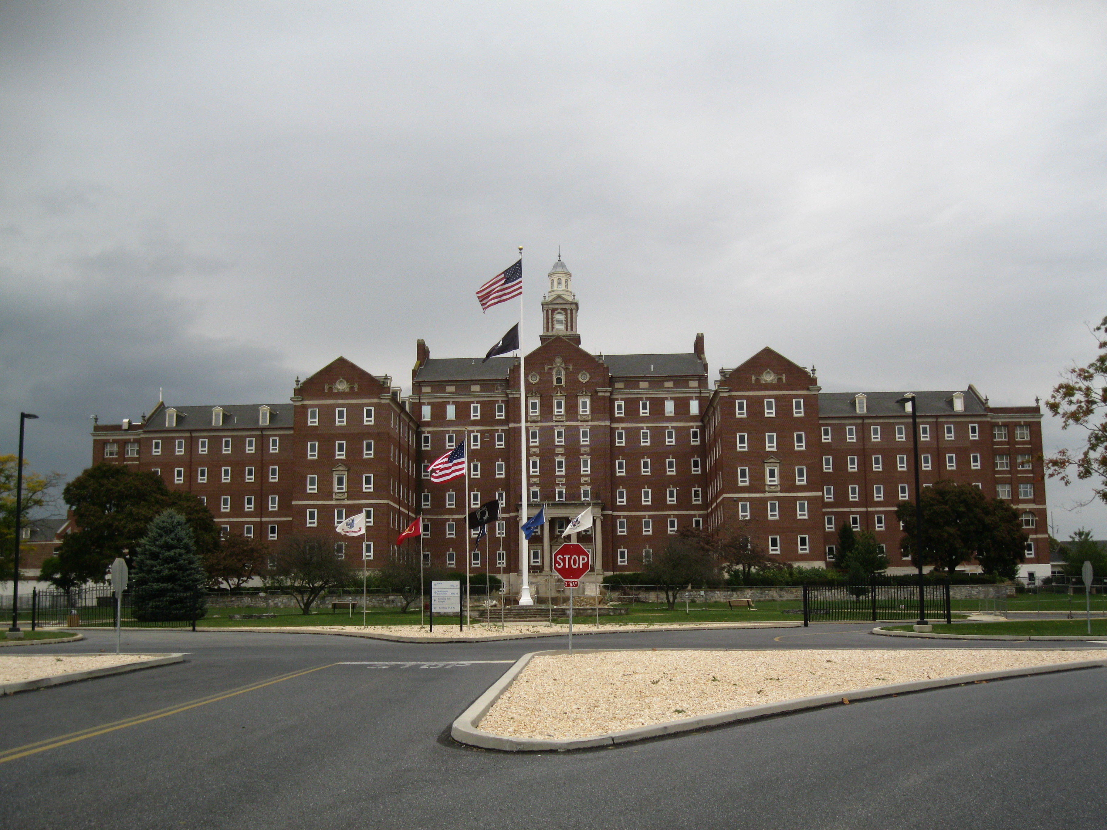 Lebanon Veterans Administration Hospital Historic District in South Lebanon Township, Lebanon County, Pennsylvania, USA